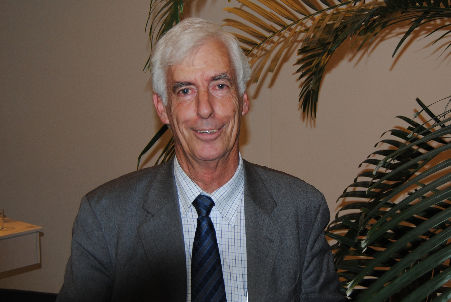 Moshe Zimmermann at a lecture in a museum in Oldenburg